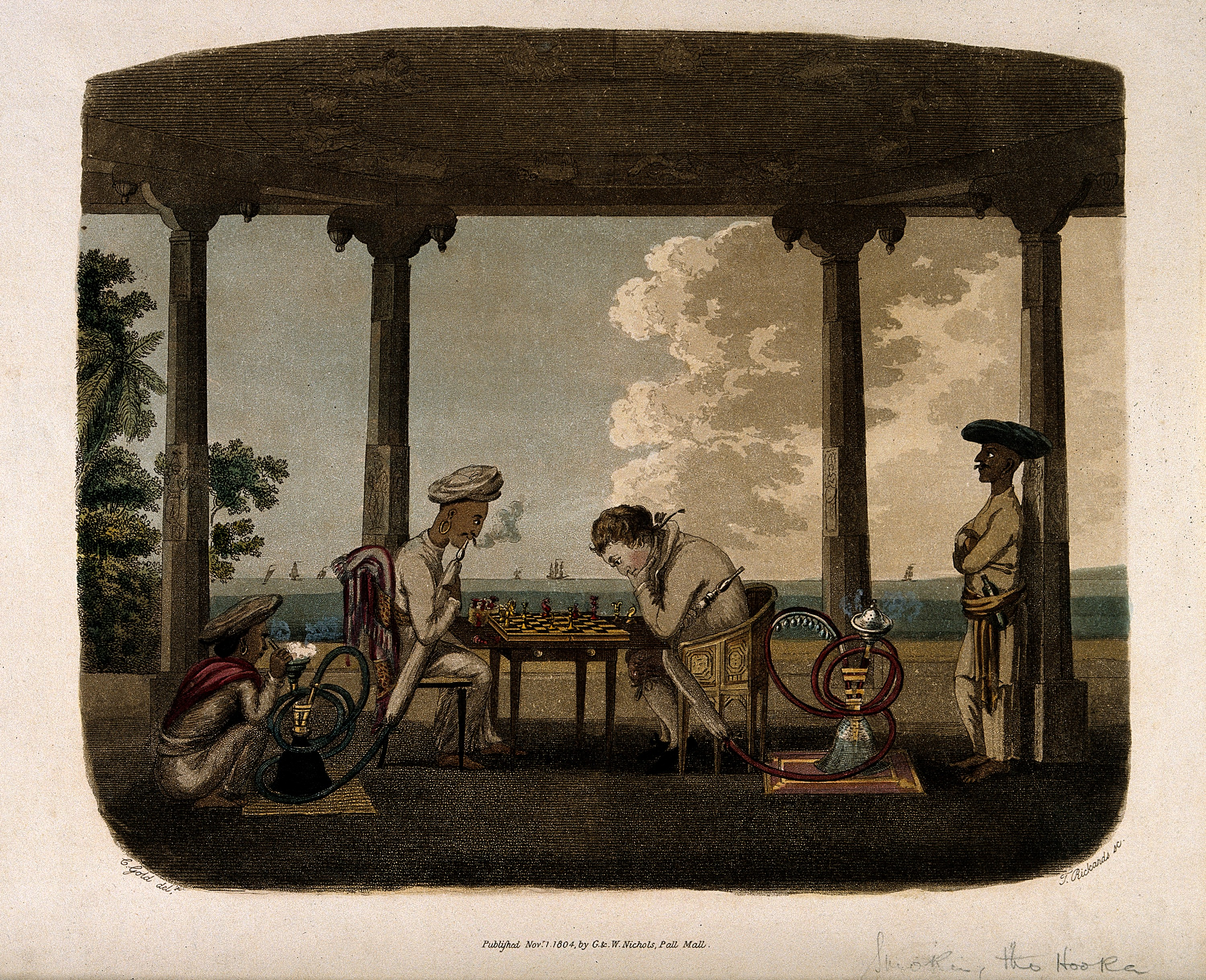 An Englishman and Asian man under an arbor playing chess and both smoking the hooka. Coloured aquatint by T. Rickards, c. 1804, after C. Gold. Iconographic Collections Keywords: Charles Gold; T. Rickards